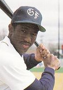 Professional baseball player Rob Richie